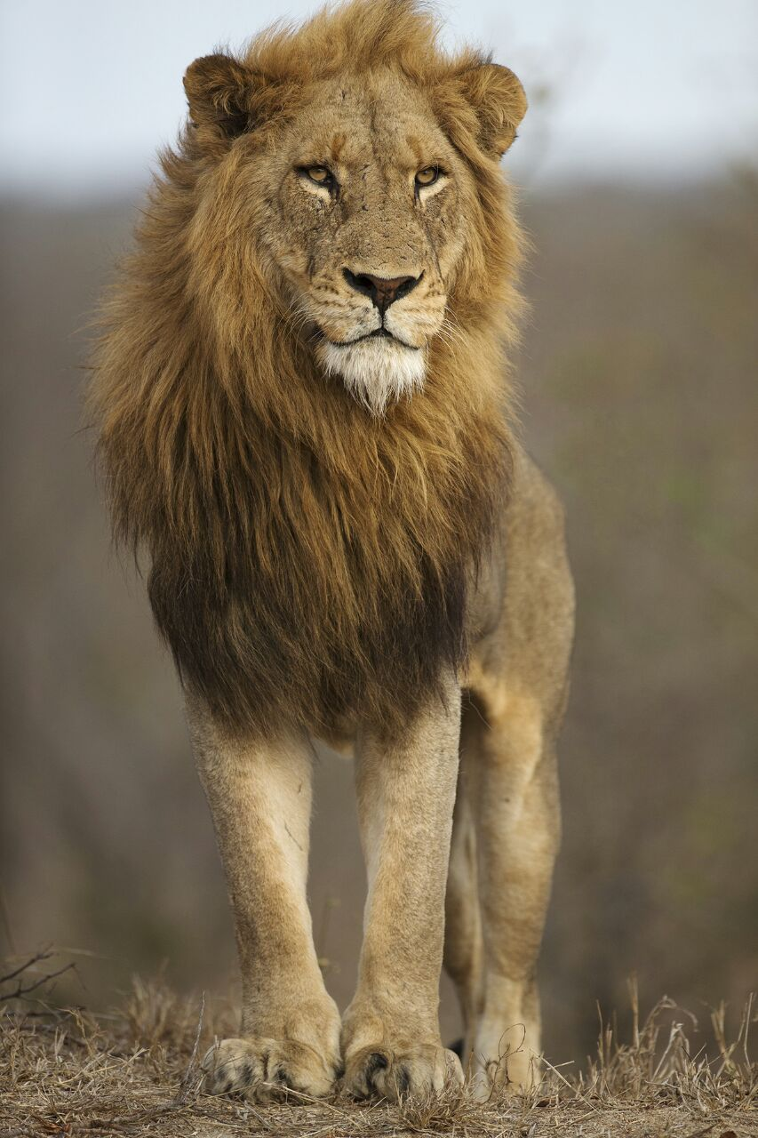 A picture of a male lion shot by Vikta JuiceBoy in Etosha National Park, Namibia.